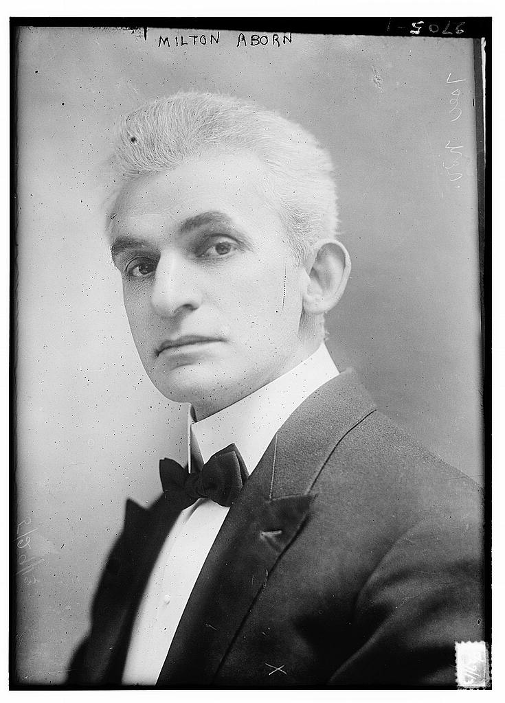 Bain News Service,, publisher. Milton Aborn of the Aborn Opera Company [no date recorded on caption card] 1 negative : glass ; 5 x 7 in. or smaller. Notes: Title from unverified data provided by the Bain News Service on the negatives or caption cards. Forms part of: George Grantham Bain Collection (Library of Congress). Format: Glass negatives. Repository: Library of Congress, Prints and Photographs Division, Washington, D.C. 20540 USA, General information about the Bain Collection is available at Persistent URL: Call Number: LC-B2- 2705-1